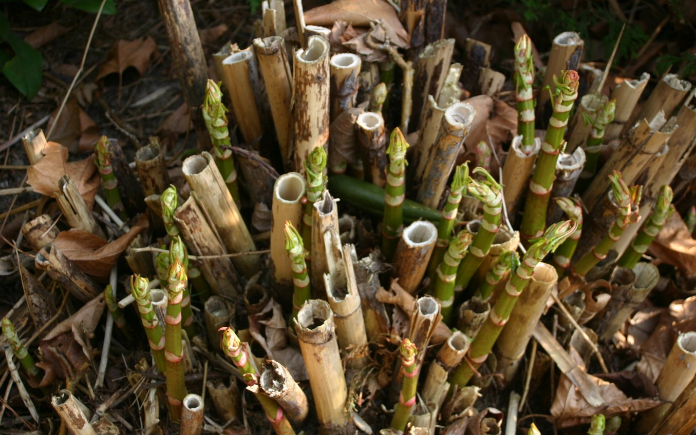 Fallopia japonica: Stems and new shoots